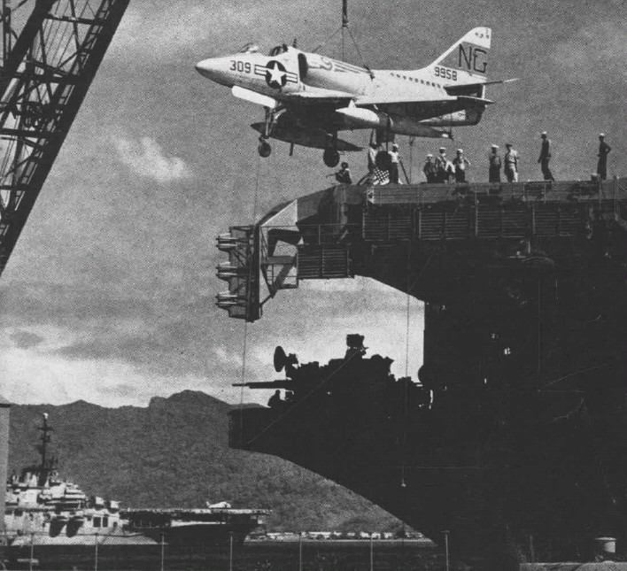 A U.S. Navy Douglas A4D-1 Skyhawk (BuNo 139958) of Attack Squadron 93 (VA-93) "Blue Blazers" is loaded on the aircraft carrier USS Ticonderoga (CVA-14). VA-93 was assigned to Carrier Air Group 9 (CVG-9) aboard the Ticonderoga for a deployment to the Western Pacific from 16 September 1957 to 25 April 1958. The aircraft carrier USS Princeton (CVS-37) is visible in the background.